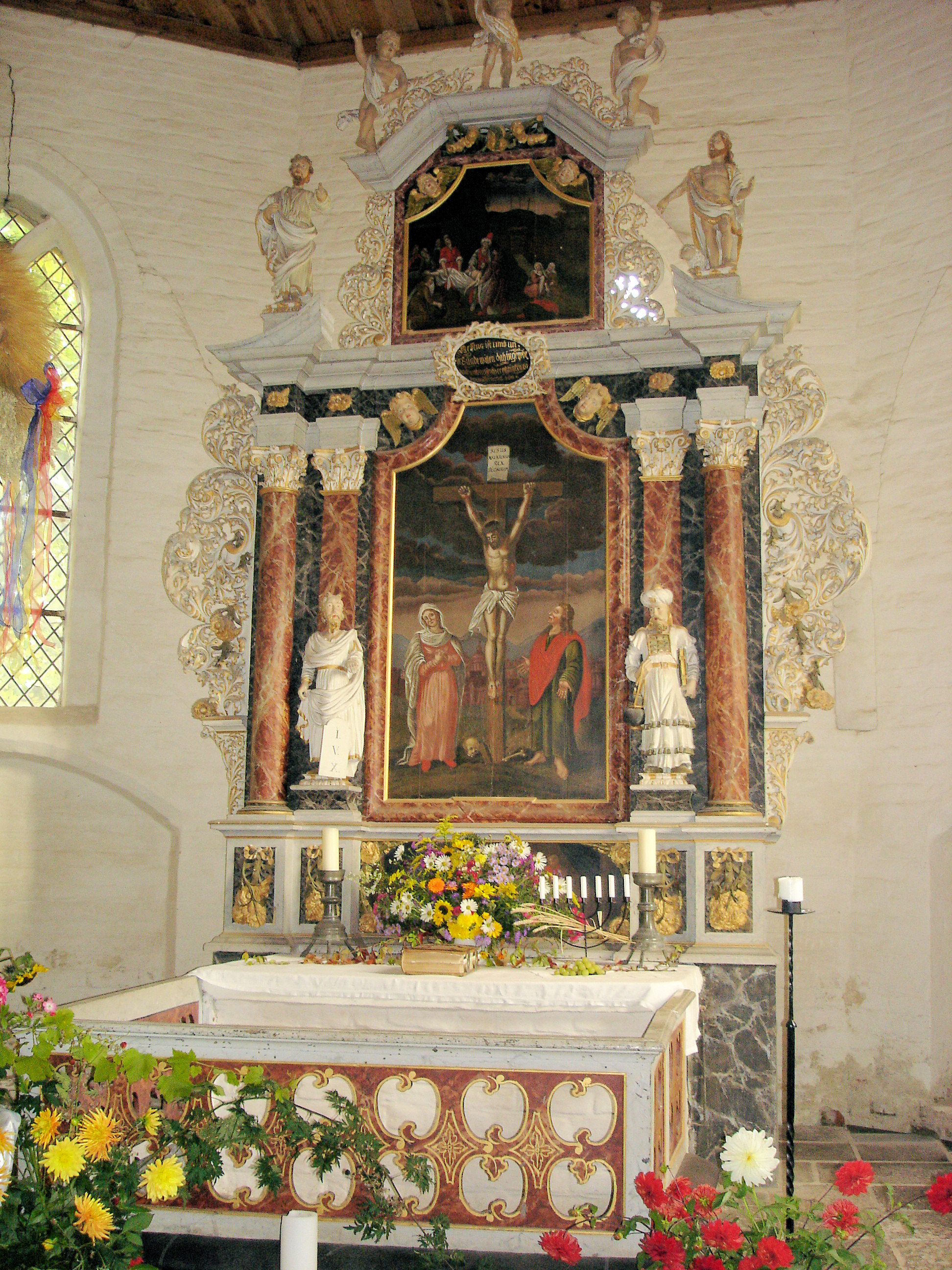 Altar - church in Friedrichshagen, Mecklenburg, Germany